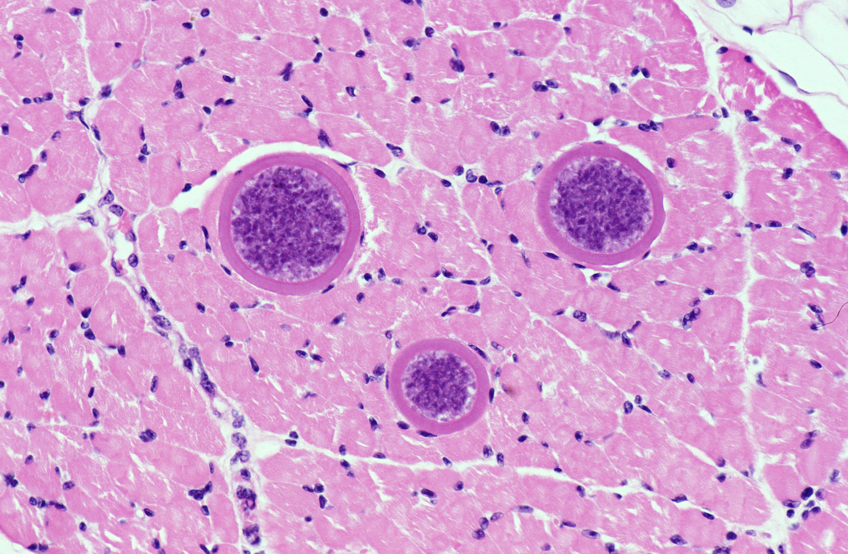 Microscopic cysts of Sarcocystis hominis nestled in a sliver of beef tongue. Proper cooking prevents the parasites bundled in these cysts (stained dark purple) from infecting people. Magnified about 400x. Image Number K9871-1